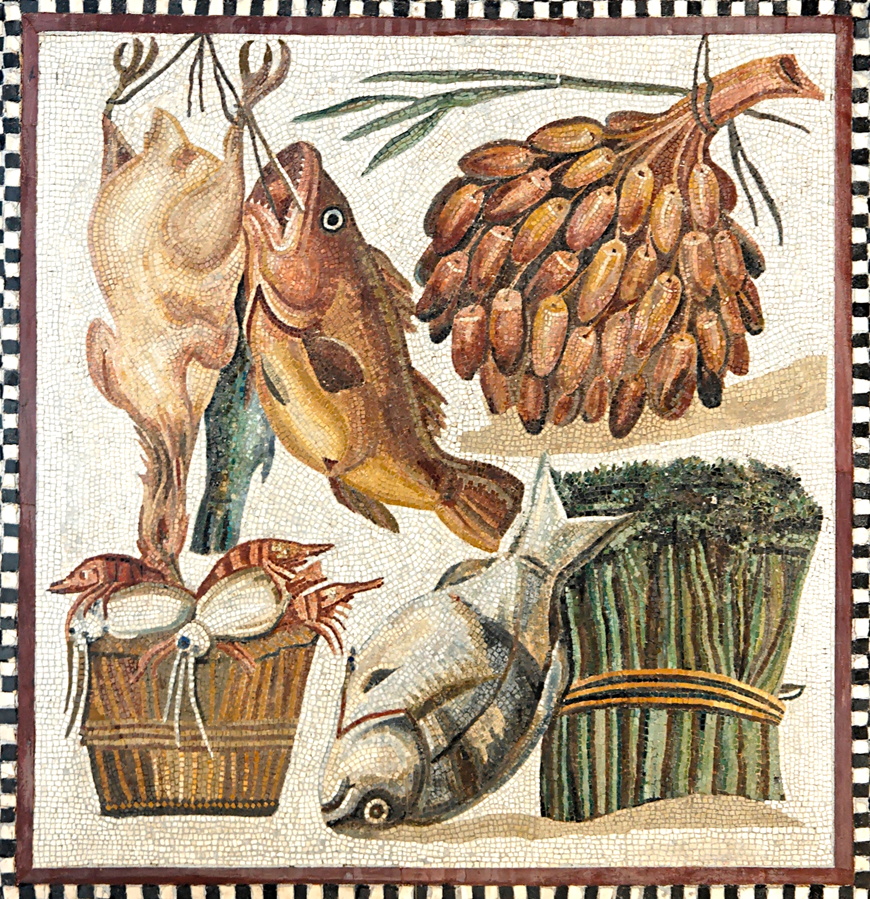 Fish and vegetables hanging up in a cupboard, still-life. Mosaic, Roman artwork, 2nd century CE. From a villa at Tor Marancia, near the Catacombs of Domitilla.